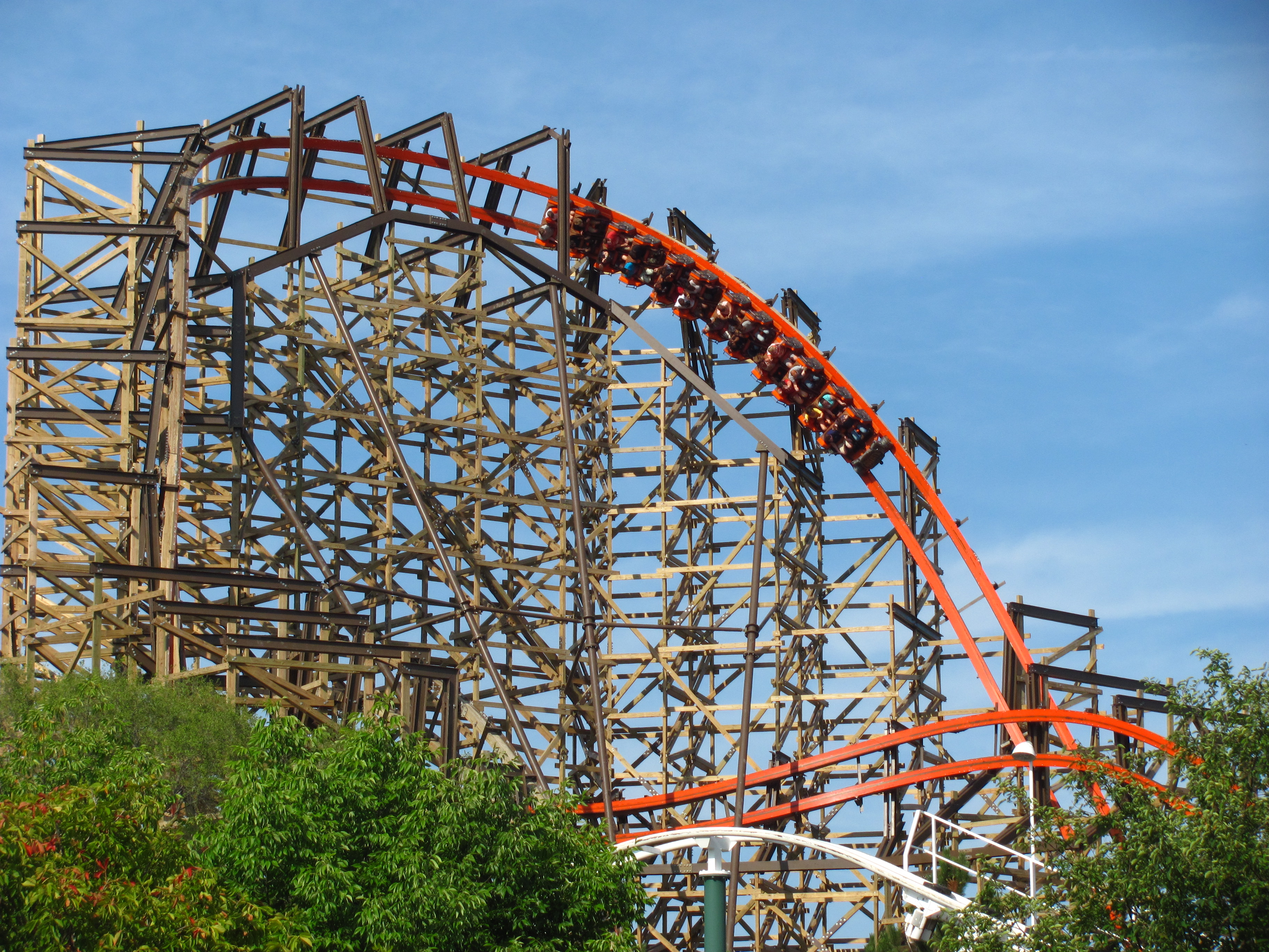 Six Flags Great America